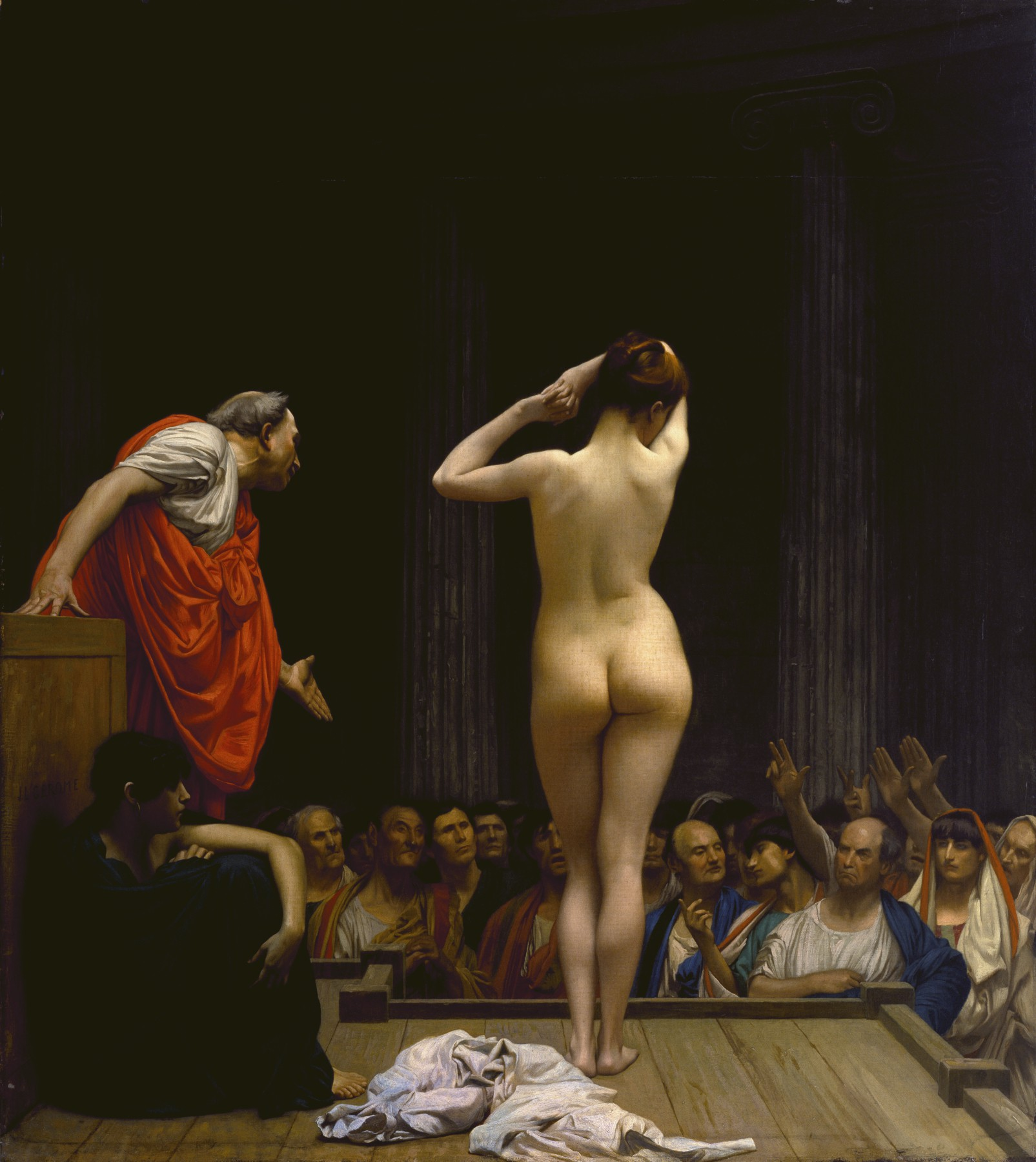 Gérôme painted six slave-market scenes set in either ancient Rome or 19th-century Istanbul. The subject provided him with an opportunity to depict facial expressions and to undertake figurative studies of sensual beauty. He painted another view of the same event--Slave Market in Rome (St. Petersburg, Hermitage Museum)--in which the viewer looks over the heads of the spectators towards the slave.